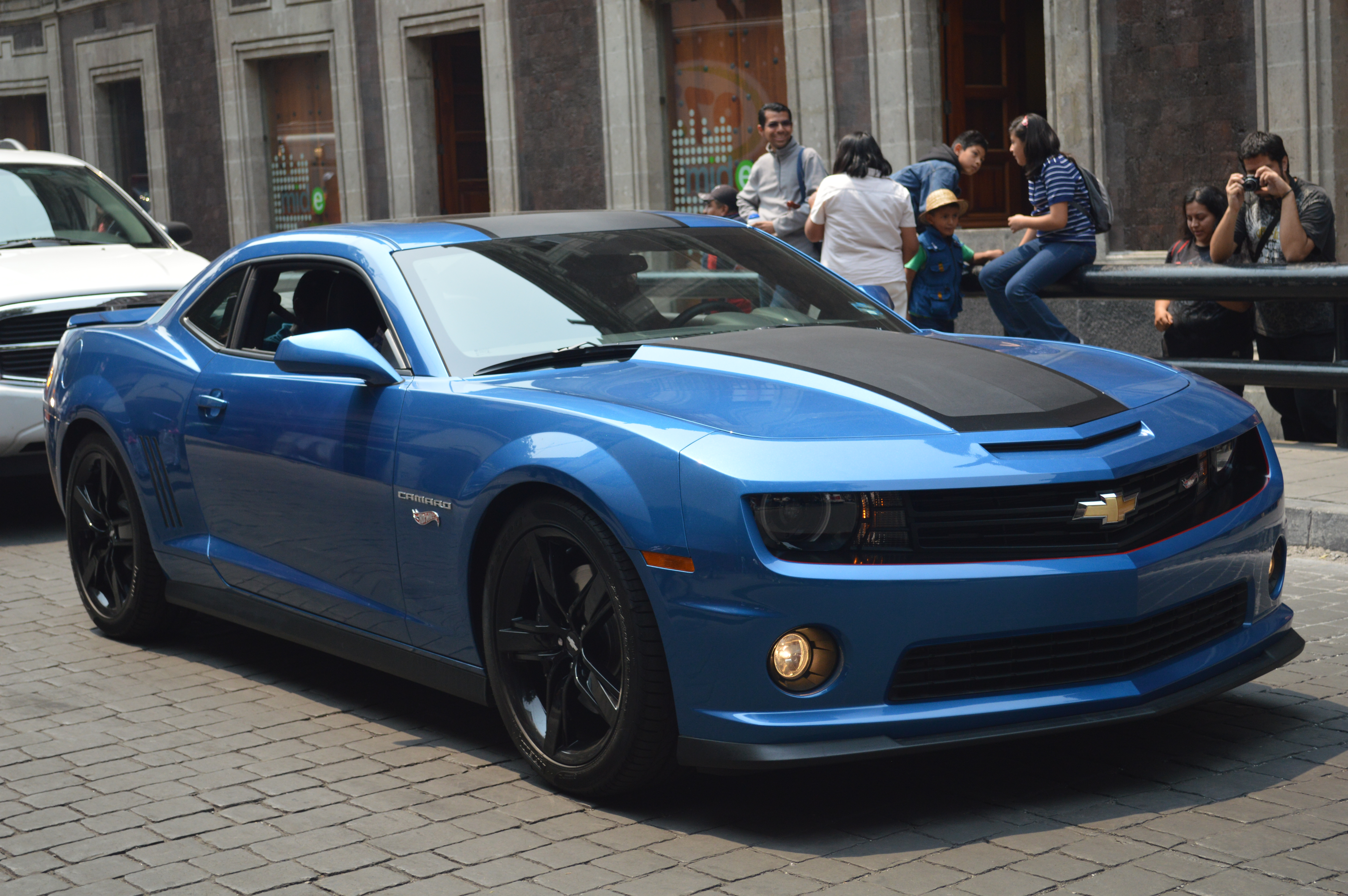 Blue Camaro on Tacuba Street in Mexico City